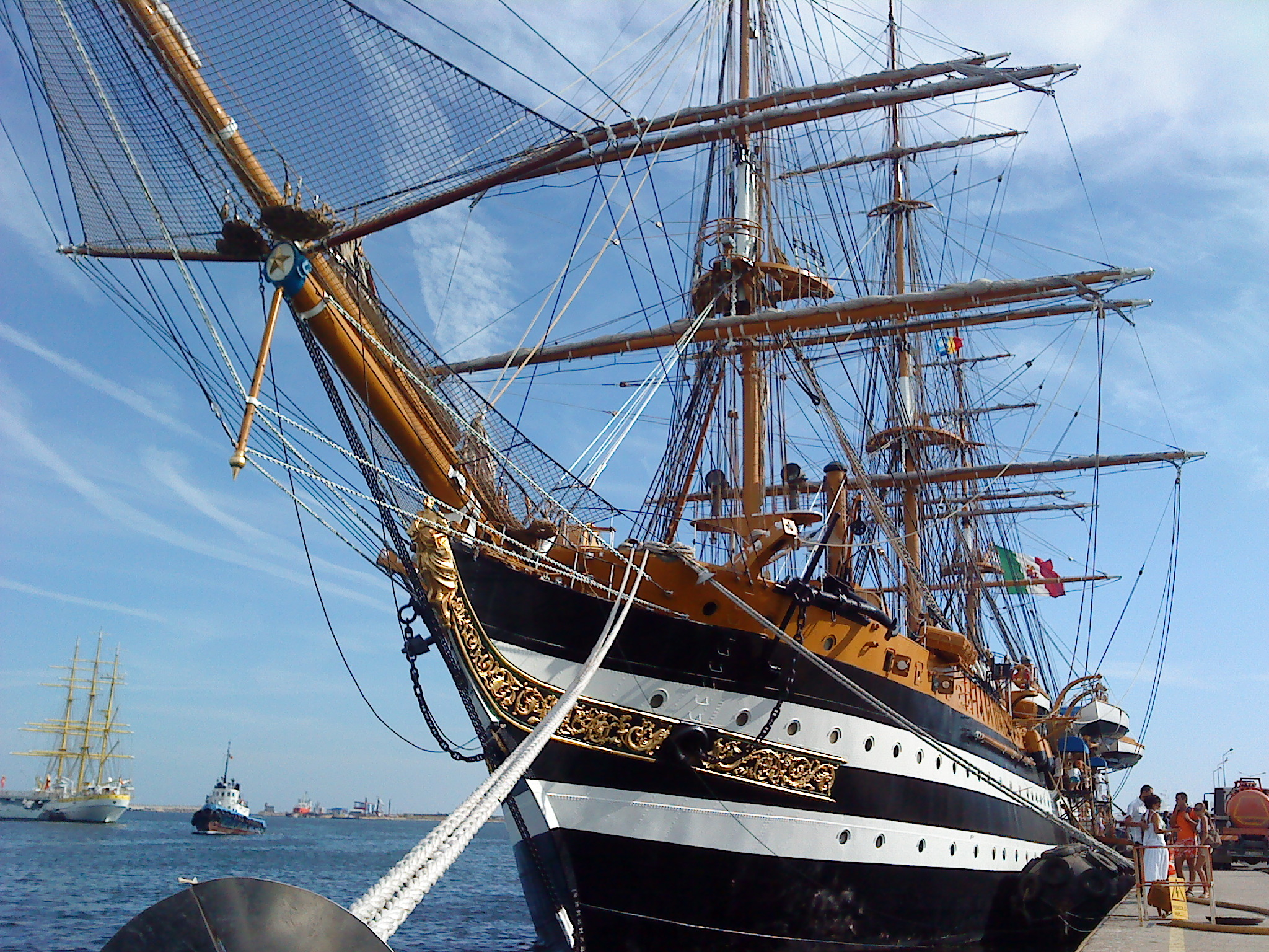 AmerigoVespucci(ITA) and Mircea(RO)in Constanta, RO-2009